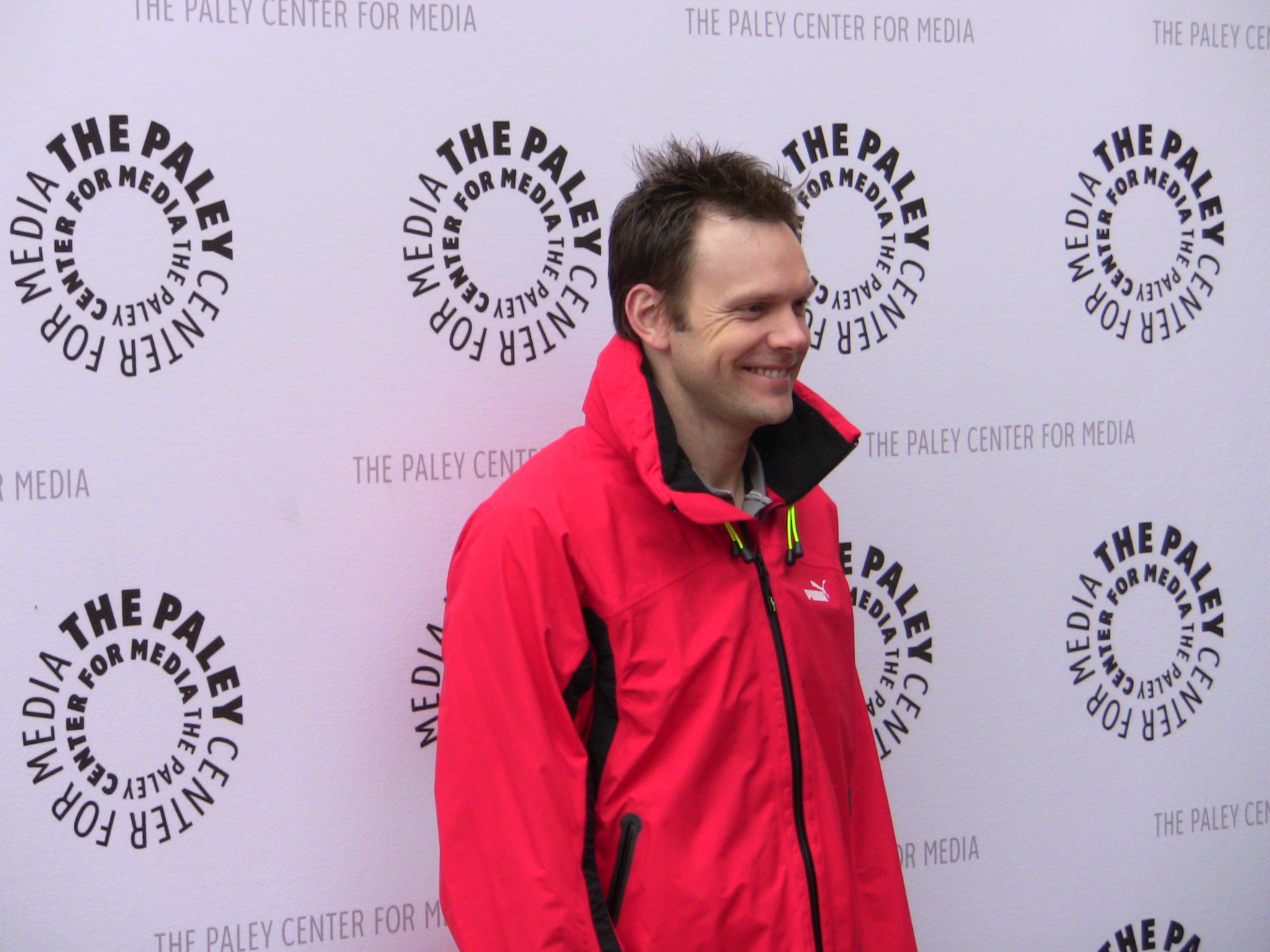 Paley Center's 6th annual celebrity golf classic, Westlake Village, Calif. - June 8, 2009